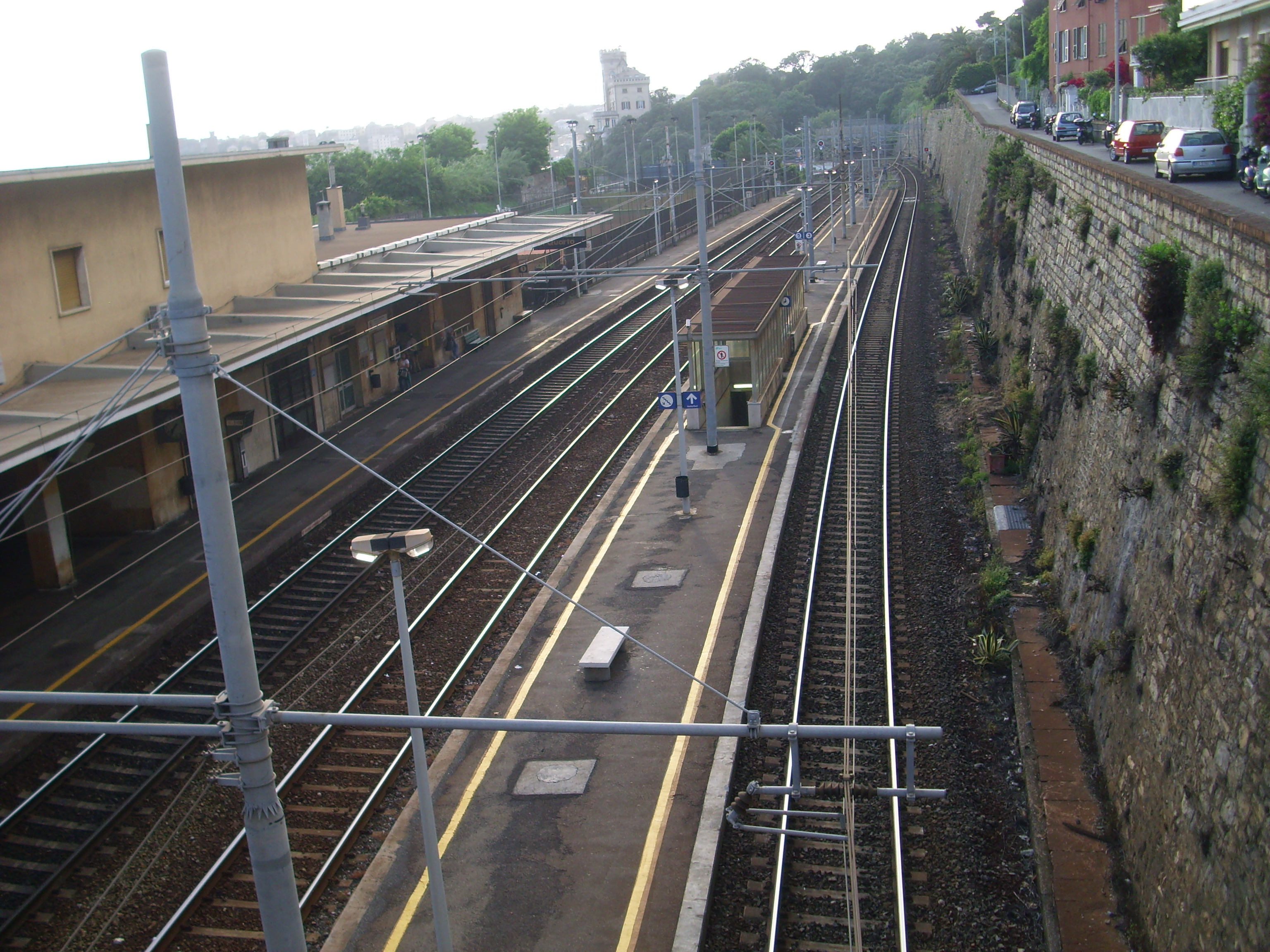 Genova Quarto dei Mille train station